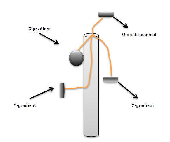 Introduction of AVS array